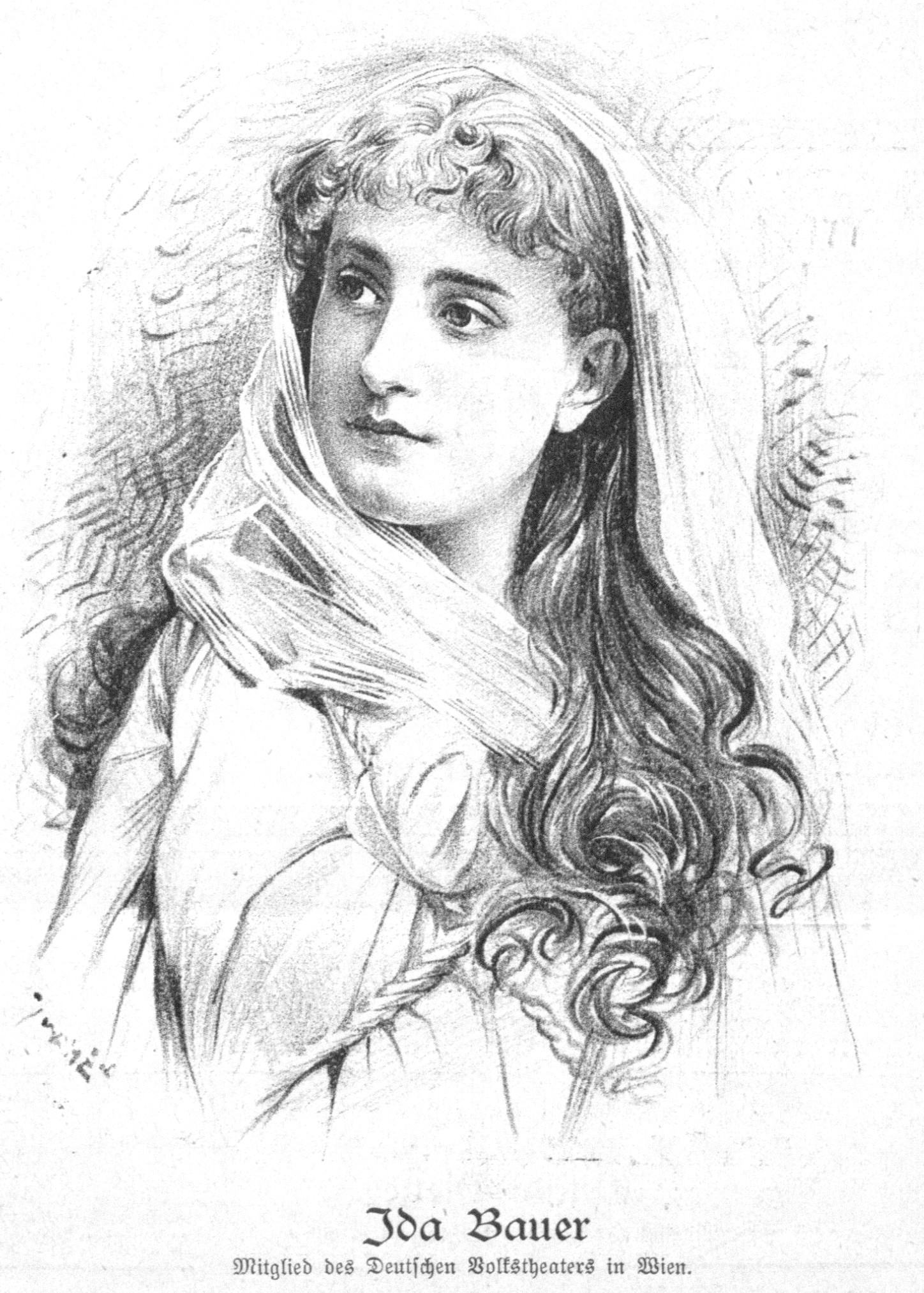 Portrait of Ida Bauer (ca 1873-1954), Austrian actress.